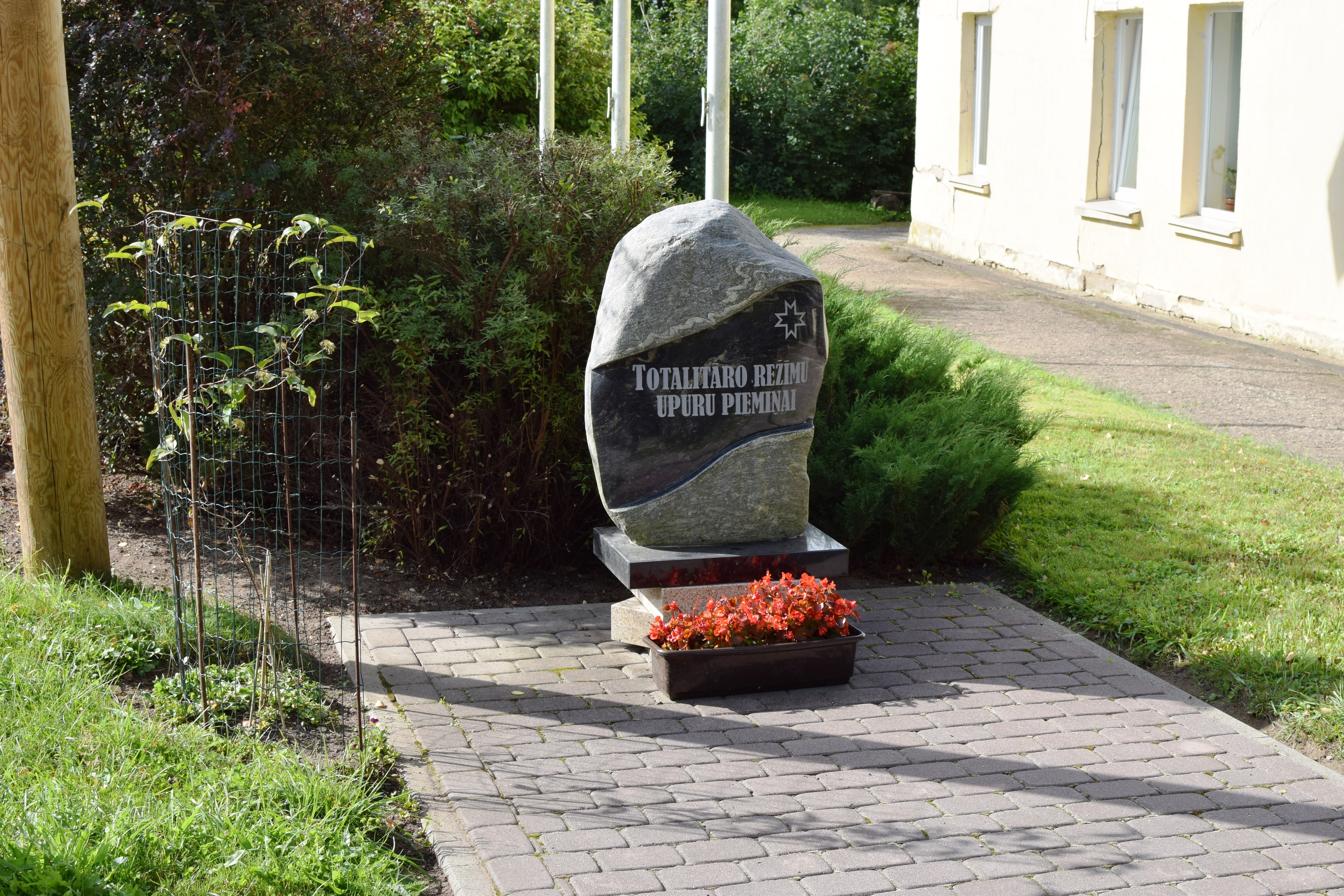 Saldus Municipality